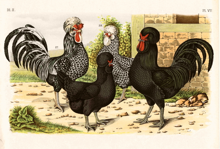 Antique print of (lithograph) of the French Chicken breed of Crèvecoeur by J. Bungartz for 'Vogelwereld' by A. Nuyens